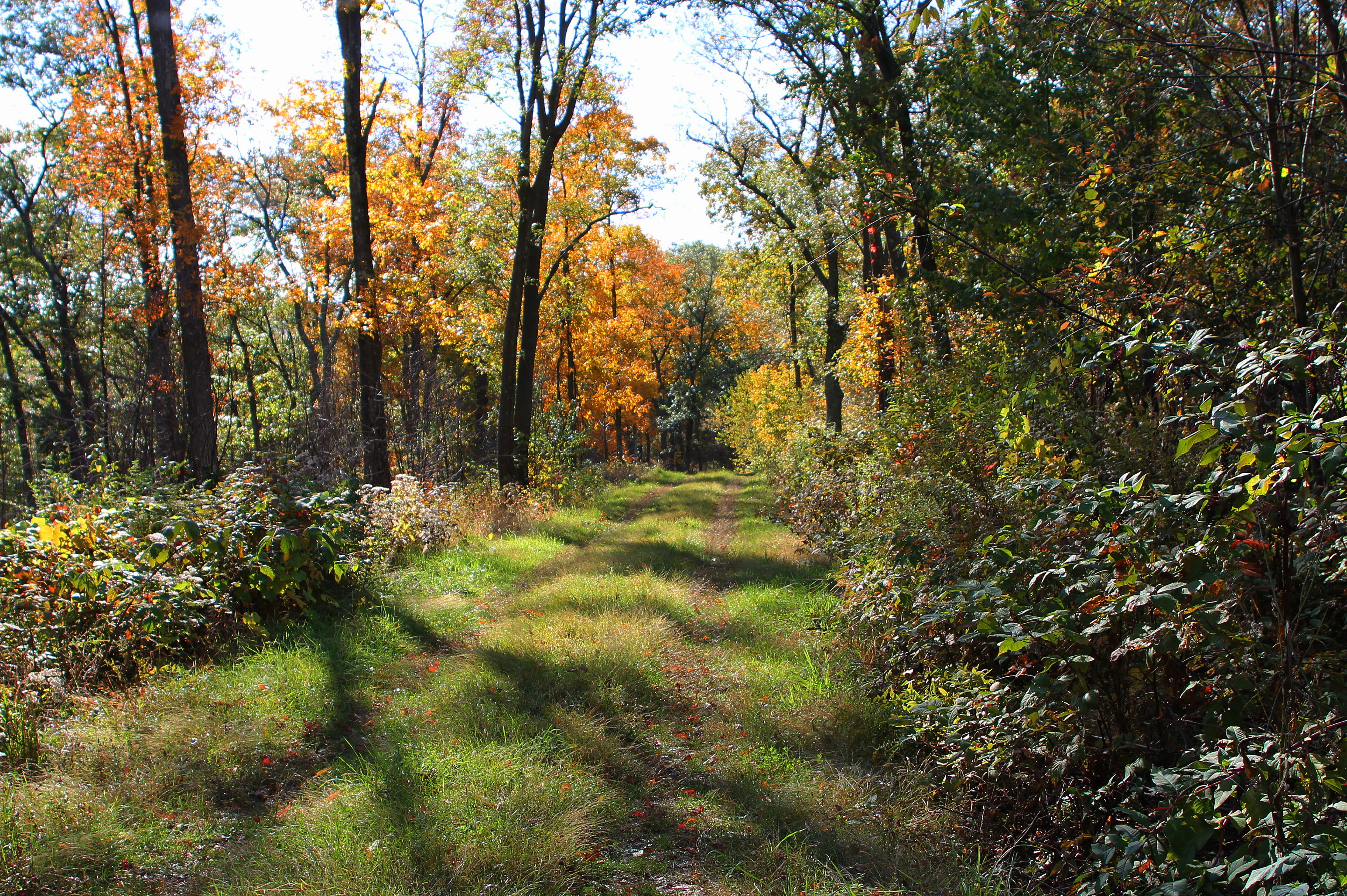 Trail (called "unimproved road" on one map and "emergency road" at the gate) in Pennsylvania State Game Lands Number 55. This is on the Huntington Mountain ridgeline.